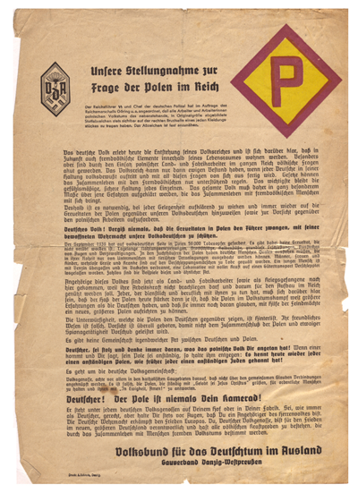 Anti-Polish poster created by VdA (Verein für das Deutschtum im Ausland-Association for Germanness abroad) entitled "Our Statement Regarding the Question of the Poles within the Reich".